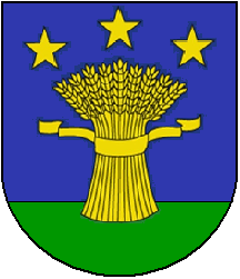 Coat of arms of Boécourt, Canton of Jura, Switzerland